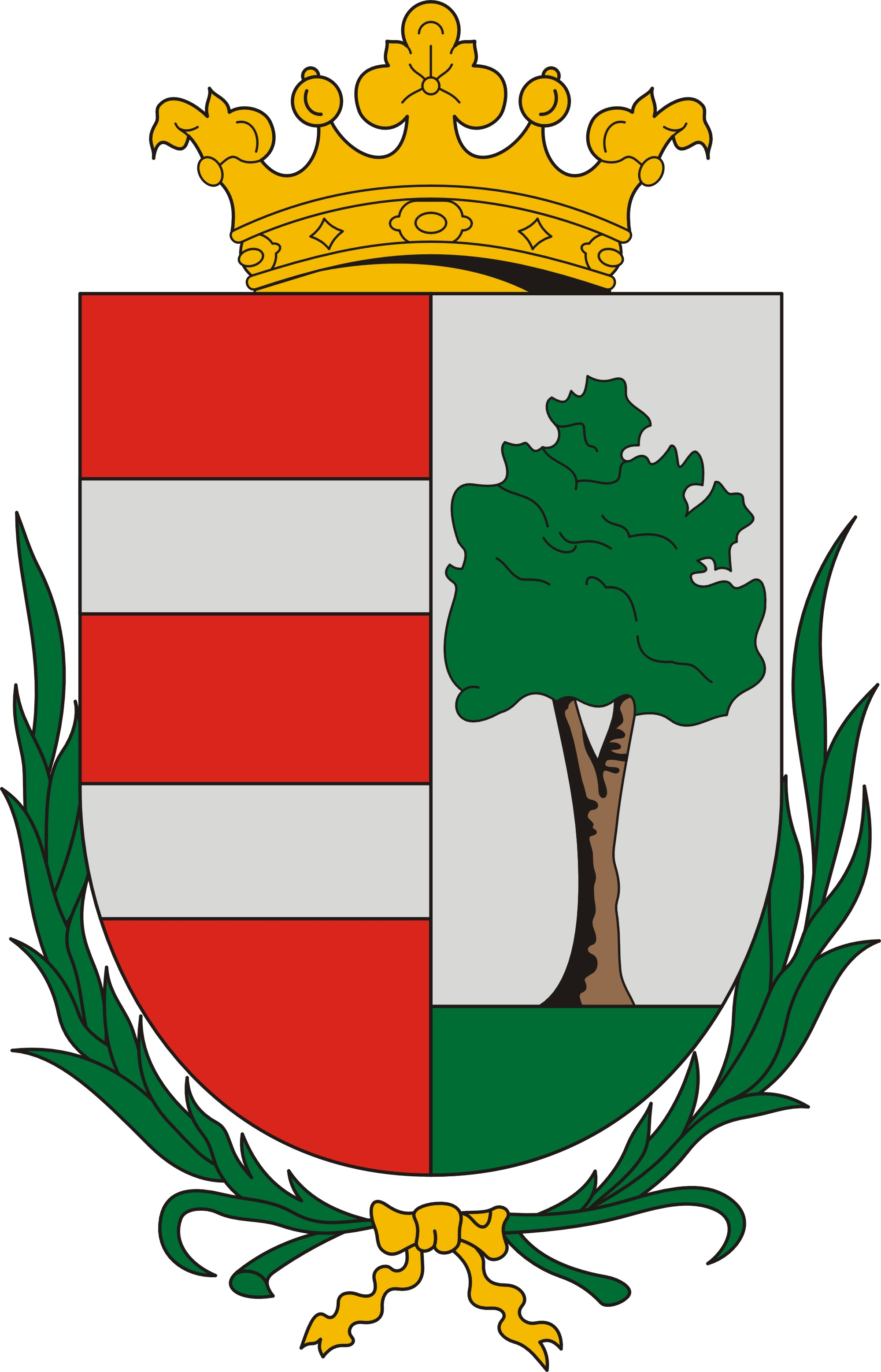 Coat of arms of Egervölgy, Hungary